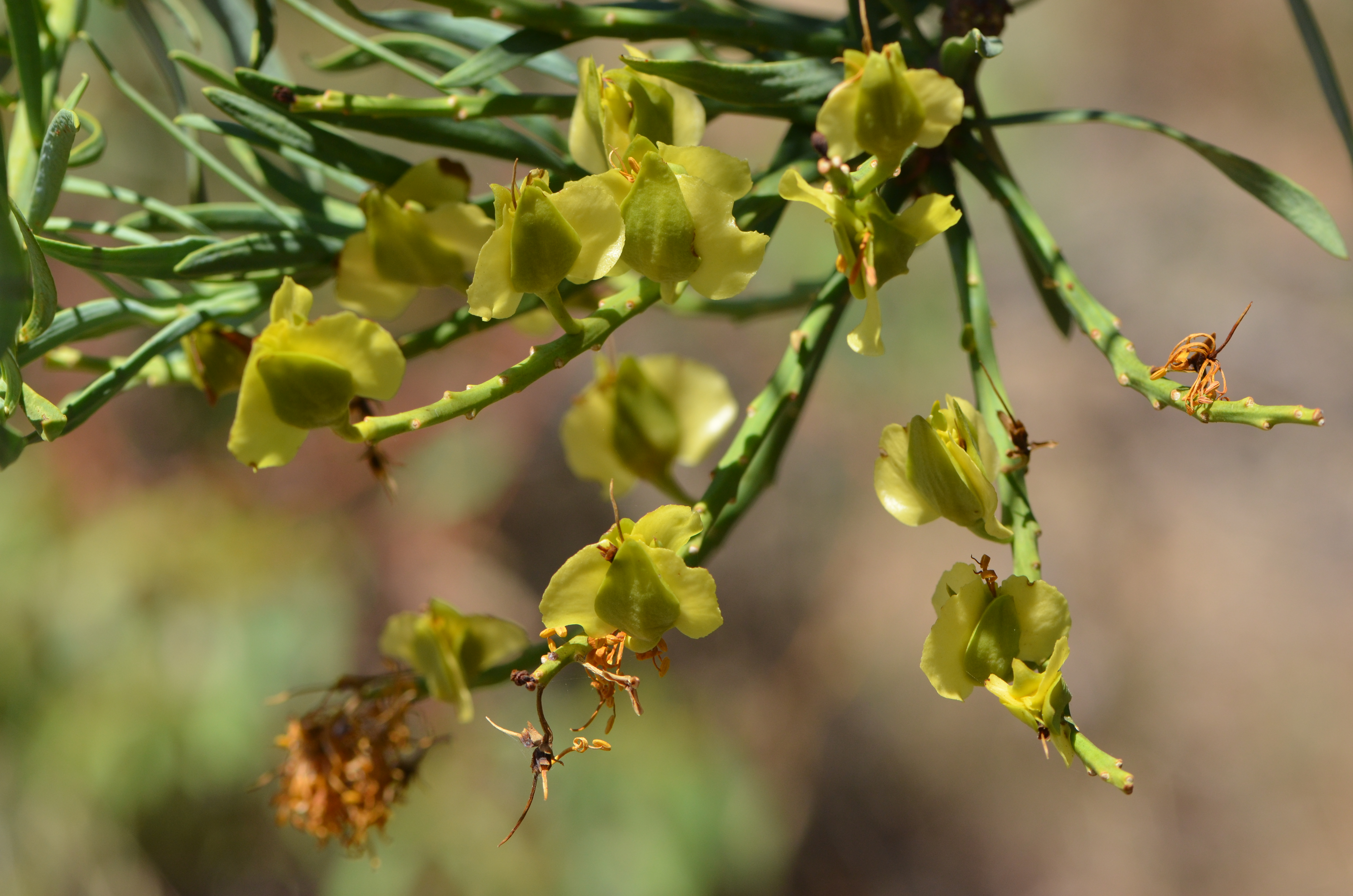 Christmas tree, Nuytsia floribunda, fruiting. Kensington Bushland, Perth, WA 6151